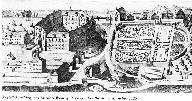 copperplate engraving of Michael Wening (1645–1718) of Schloss Sünching